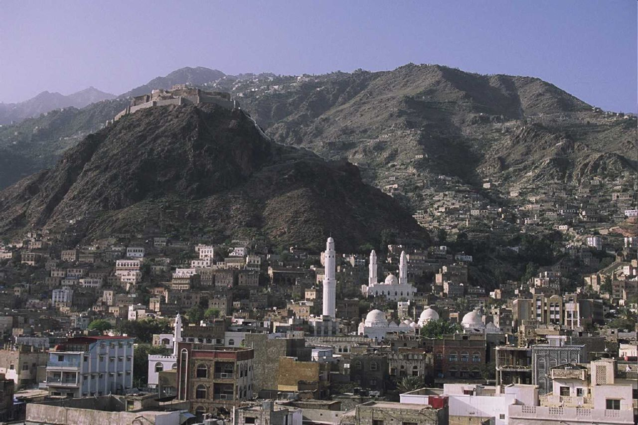 A view of Taiz a City in Yemen.